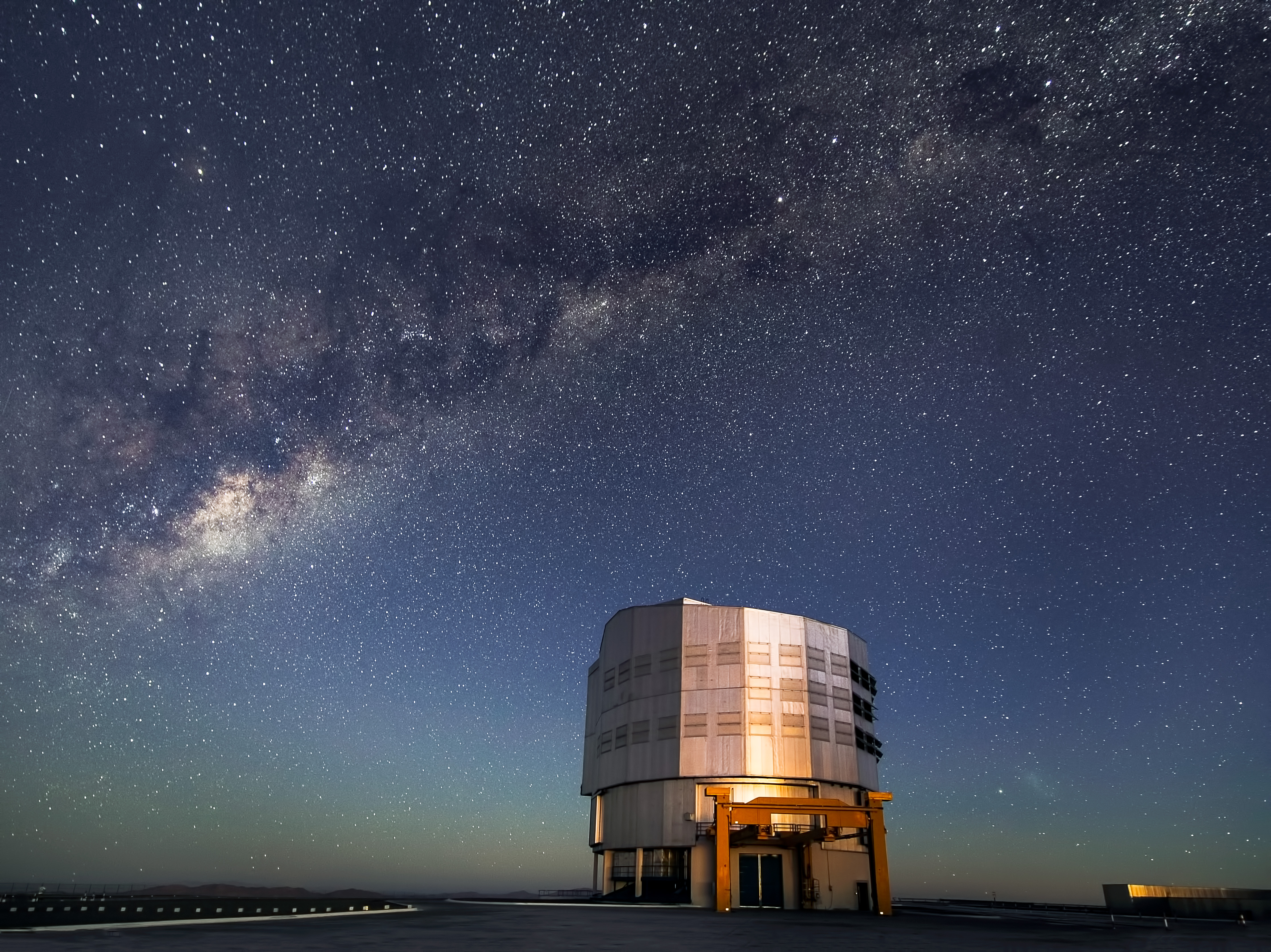 In this new image dusk reveals a stunning night sky over ESO’s Paranal Observatory, home to the Very Large Telescope (VLT) — the flagship facility for European ground-based astronomy. As the Sun sets on the site the Milky Way is shown in magnificent detail. Although it appears to the naked eye as a clouded haze across the sky, the Milky Way consists of 100–400 billion individual stars strung out along its 100 000 light-year extent. In this image the Milky Way is a backdrop to the Unit Telescope number 4, also known as Yepun. Yepun is Venus in the Mapuche language, the language of the indigenous people from the south of Chile. Yepun is one of four 8.2-metre telescopes that can be used together as one giant telescope, allowing astronomers to detect details up to 16 times finer than would be possible with the individual telescopes. Together, the VLT has stimulated a new age of discoveries, with several notable scientific firsts, including tracking individual stars moving around the supermassive black hole at the centre of the Milky Way (eso0846). This image was taken by ESO Photo Ambassador John Colosimo and submitted to the Your ESO Pictures Flickr group. The Flickr group is regularly reviewed and the best photos are selected to be featured in our popular Picture of the Week series, or in our gallery. Links This image on Flickr Virtual tour of Paranal/Armazones Your ESO Pictures Flickr group